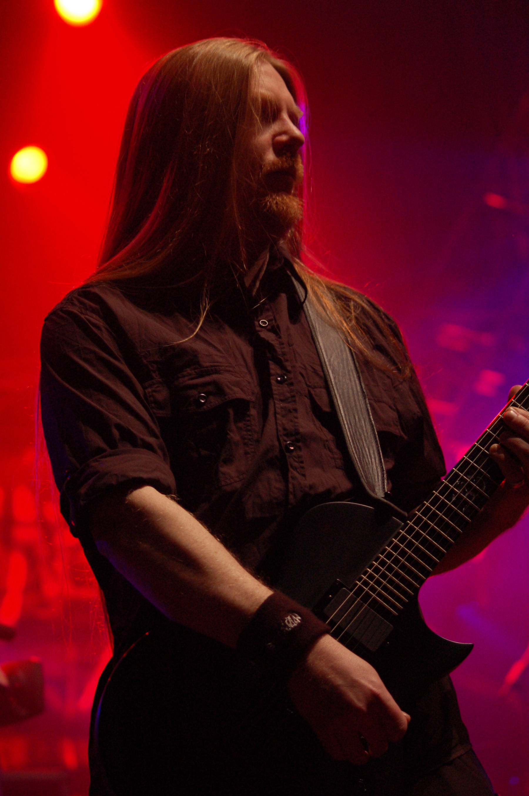 Andrew Craighan from My Dying Bride during Metalmania 2007 festival